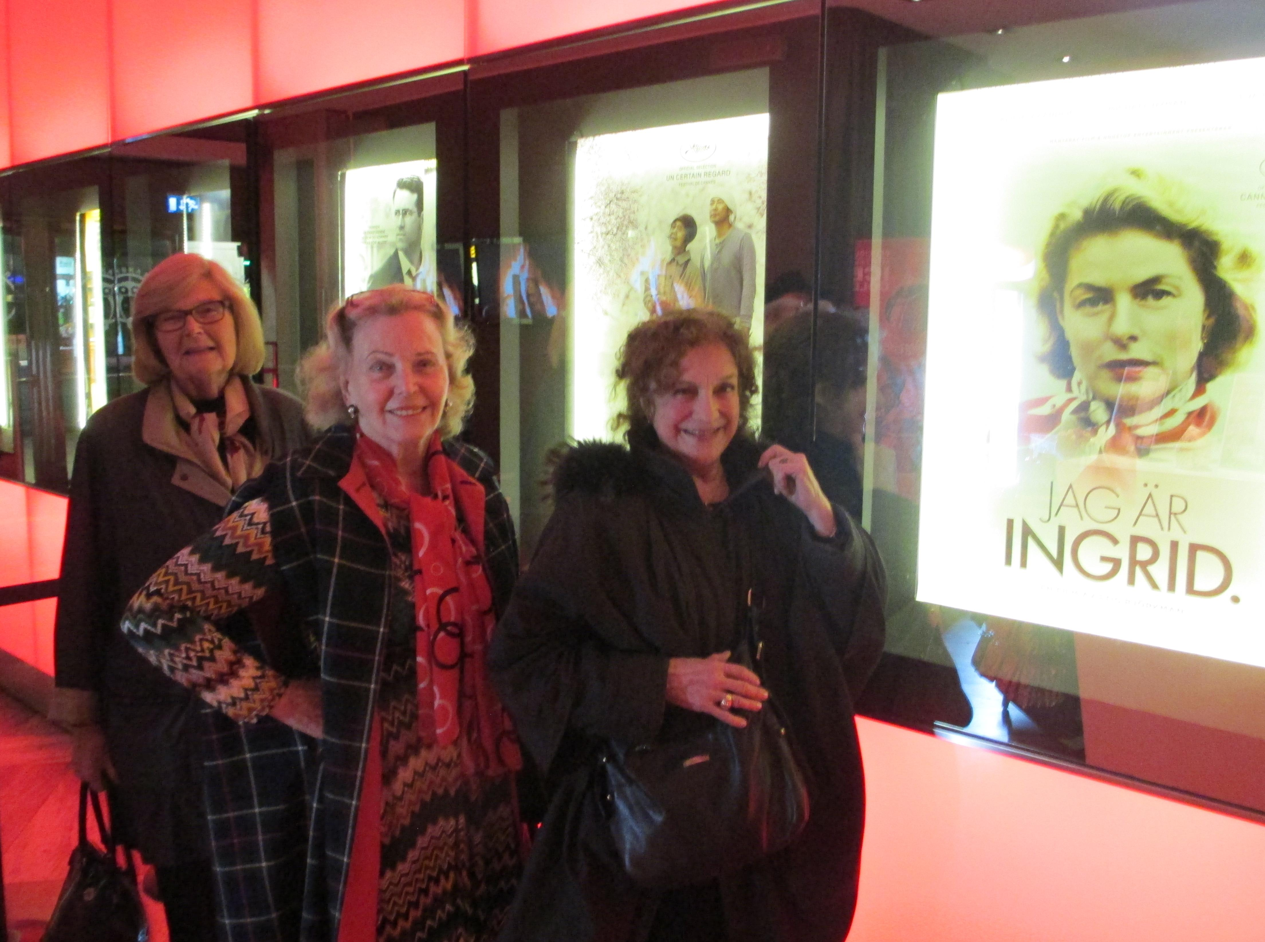 Ulla Jerstav Riese, Princess Marianne Bernadotte & Gunvor Pontén after seeing Ingrid Bergman moviePlace: Grand movie theater, Sveavägen 45, Stockholm, Sweden